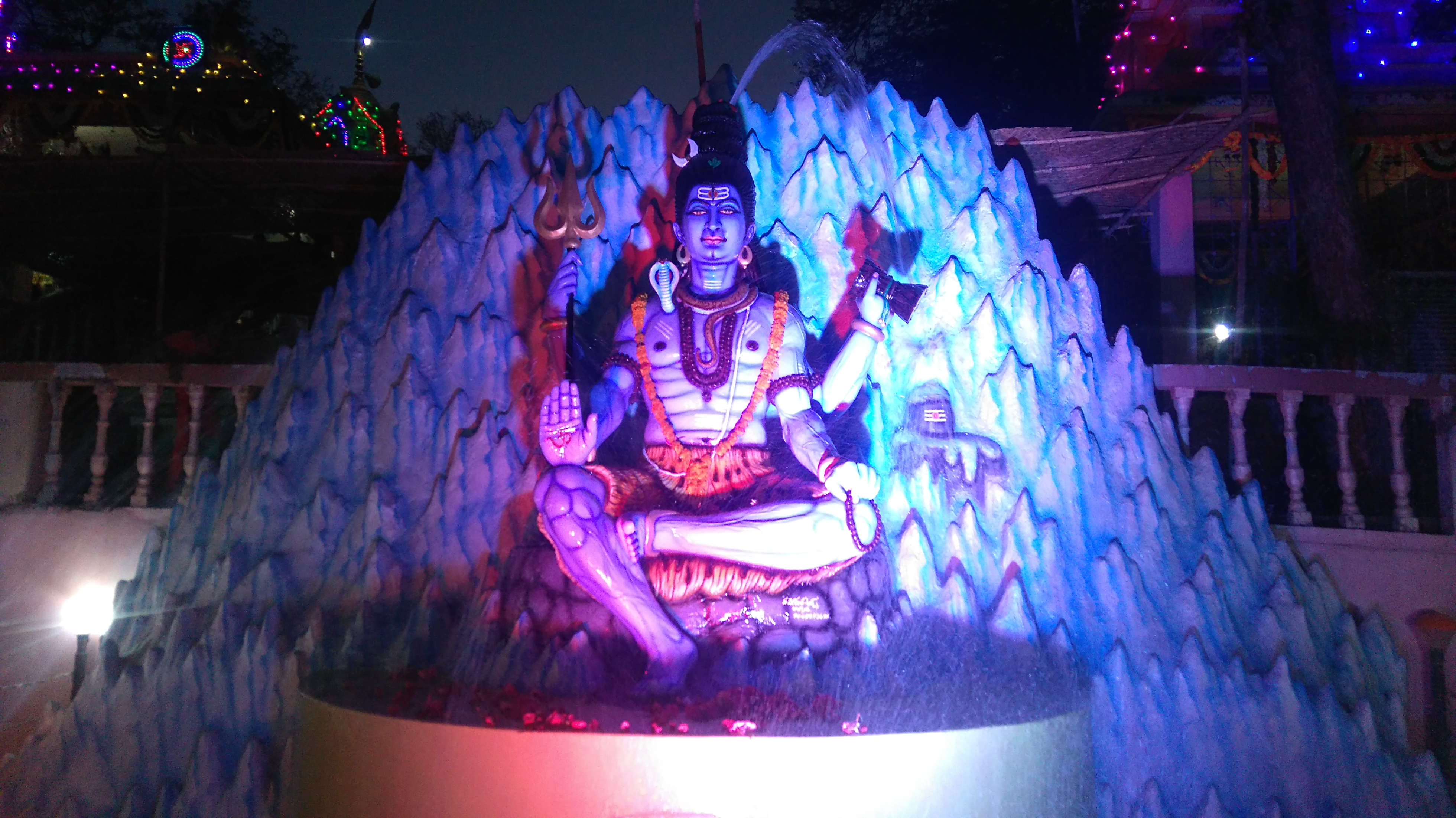 this is the concrete statue of Lord Shiva at night of Mahashivarathri